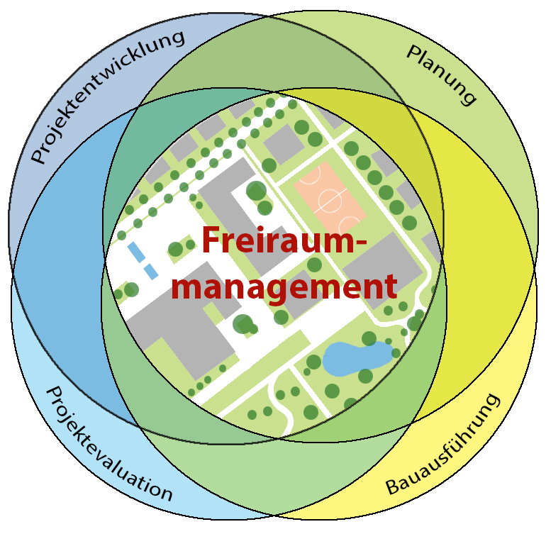 Open Space Management